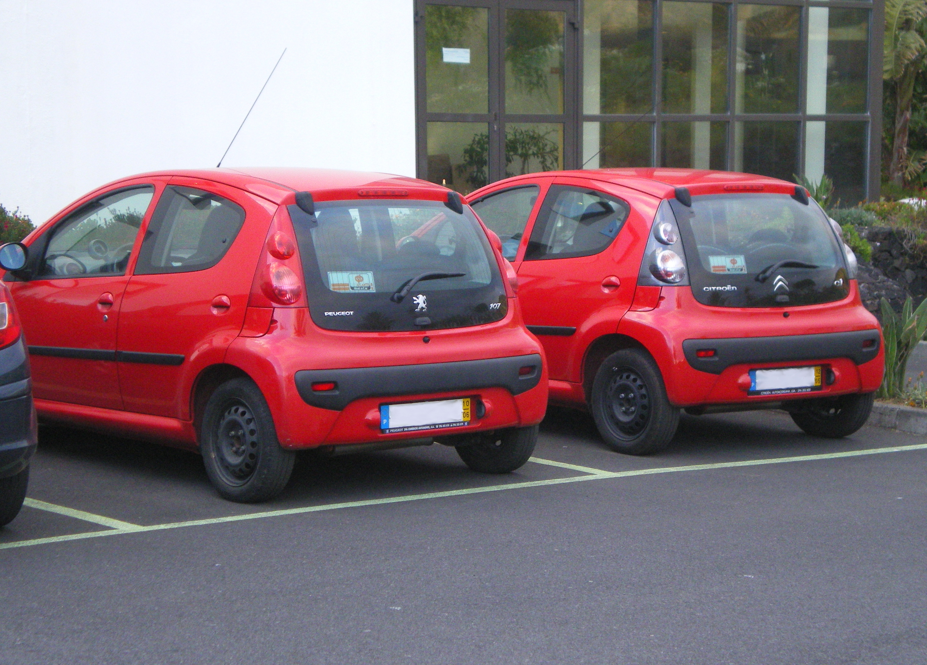 Badge Engineering: Peugeot 107 and Citroen C 1 look very much the same.